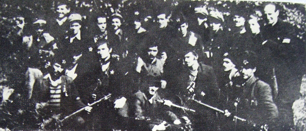 Formation of the partisans detachment "Dimitar Vlahov" in May 1942, at the mountain Lisec, Veles. This media file is produced by Wikipedian in Residence in Category:Wikipedian in Residence at DARM in 2016.